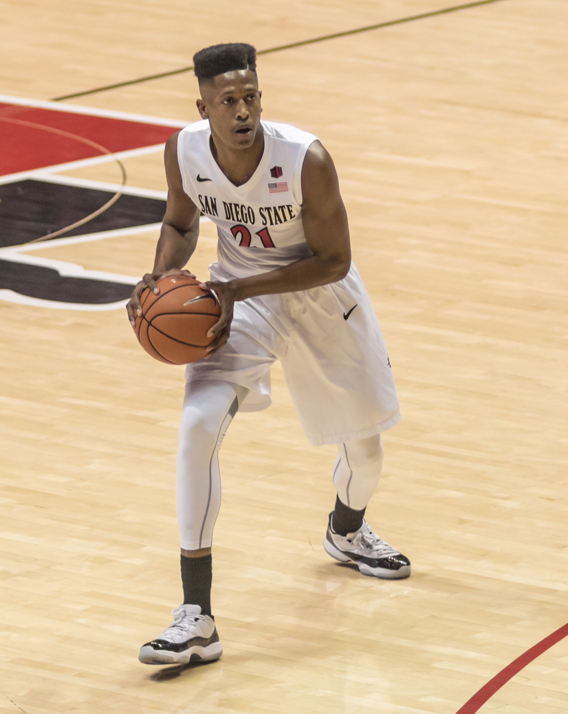 Malik Pope, college basketball player for the San Diego State Aztecs, Dec 22, 2014